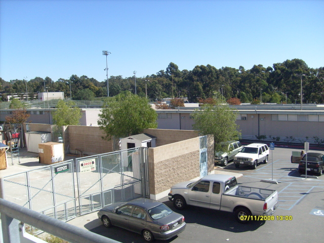 SRHS1